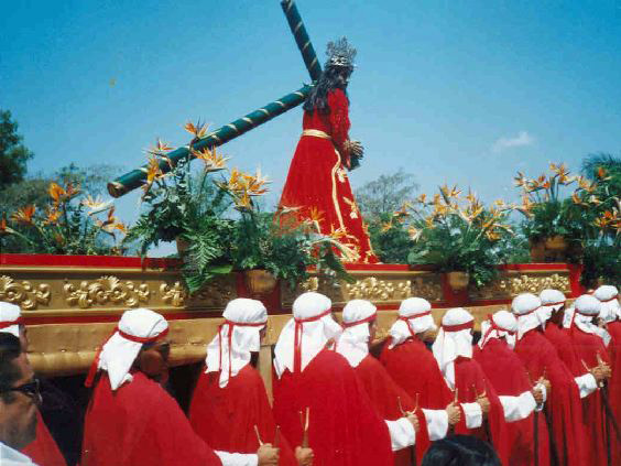 Holy Week procession in Comayagua, Honduras. Some 40 men (and some women) are carrying a statue of Christ carrying the Cross.